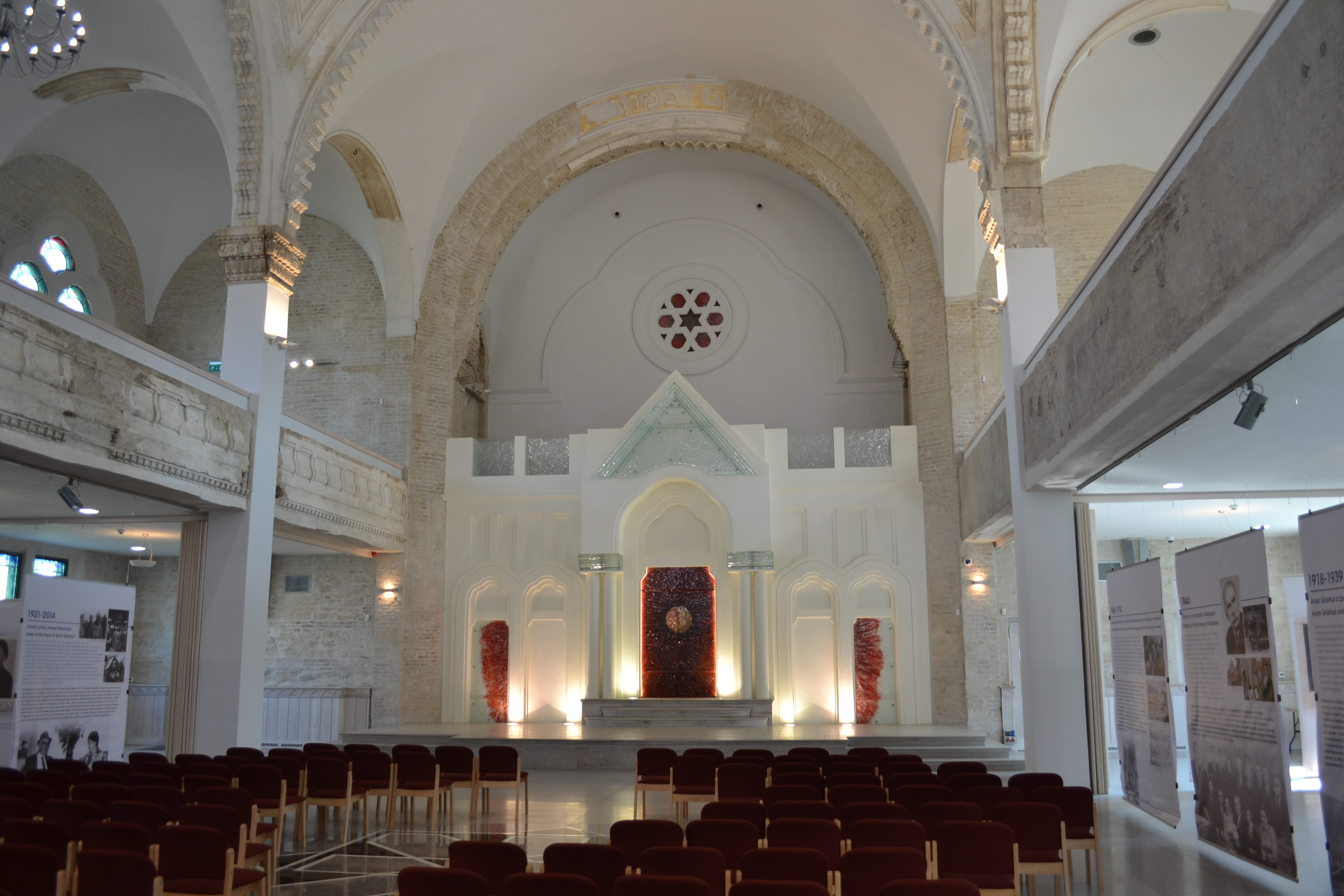 Lučenec Synagogue, interior (partially renovate)